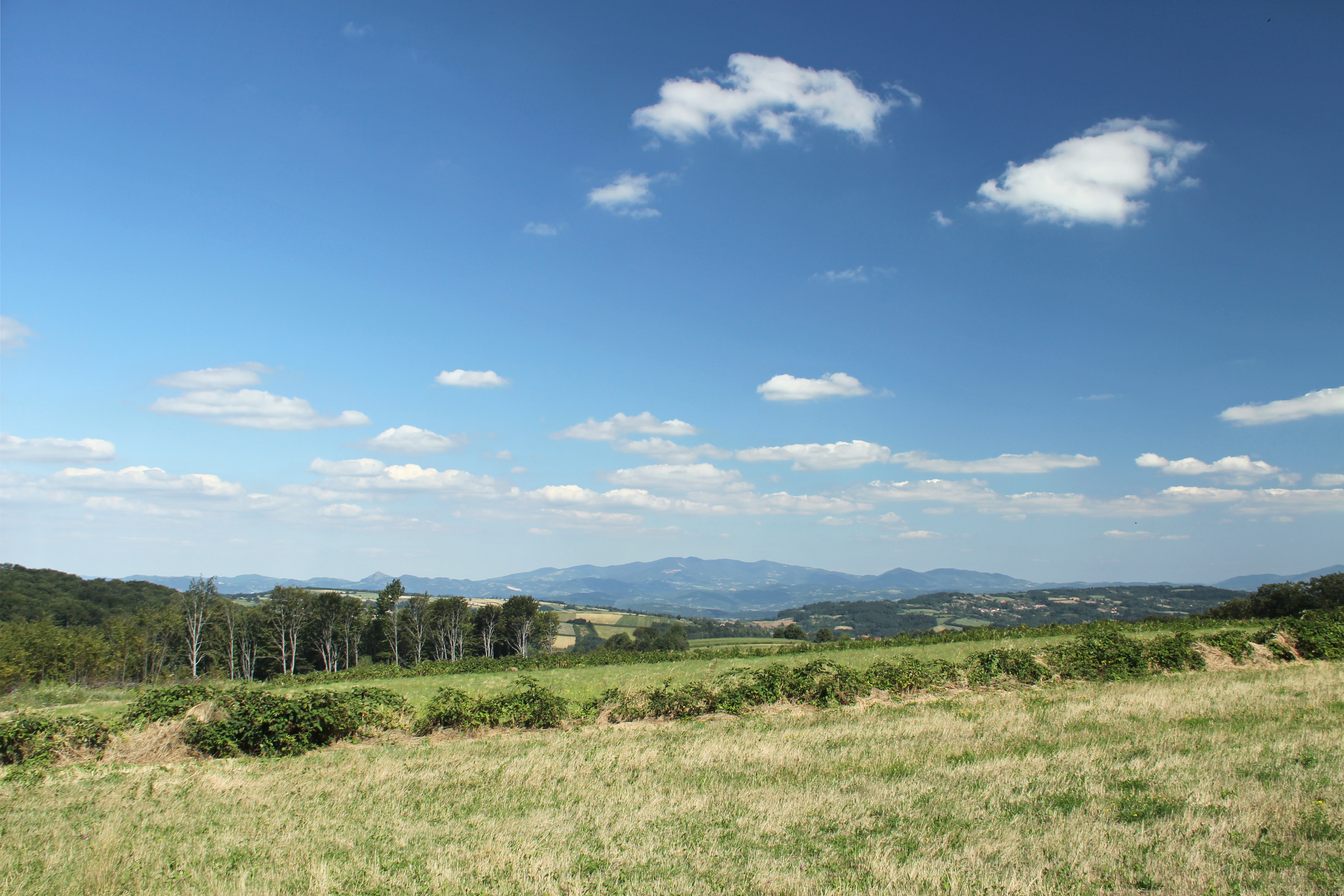 Landscape of outstanding features, mountain Rajac, Serbia.